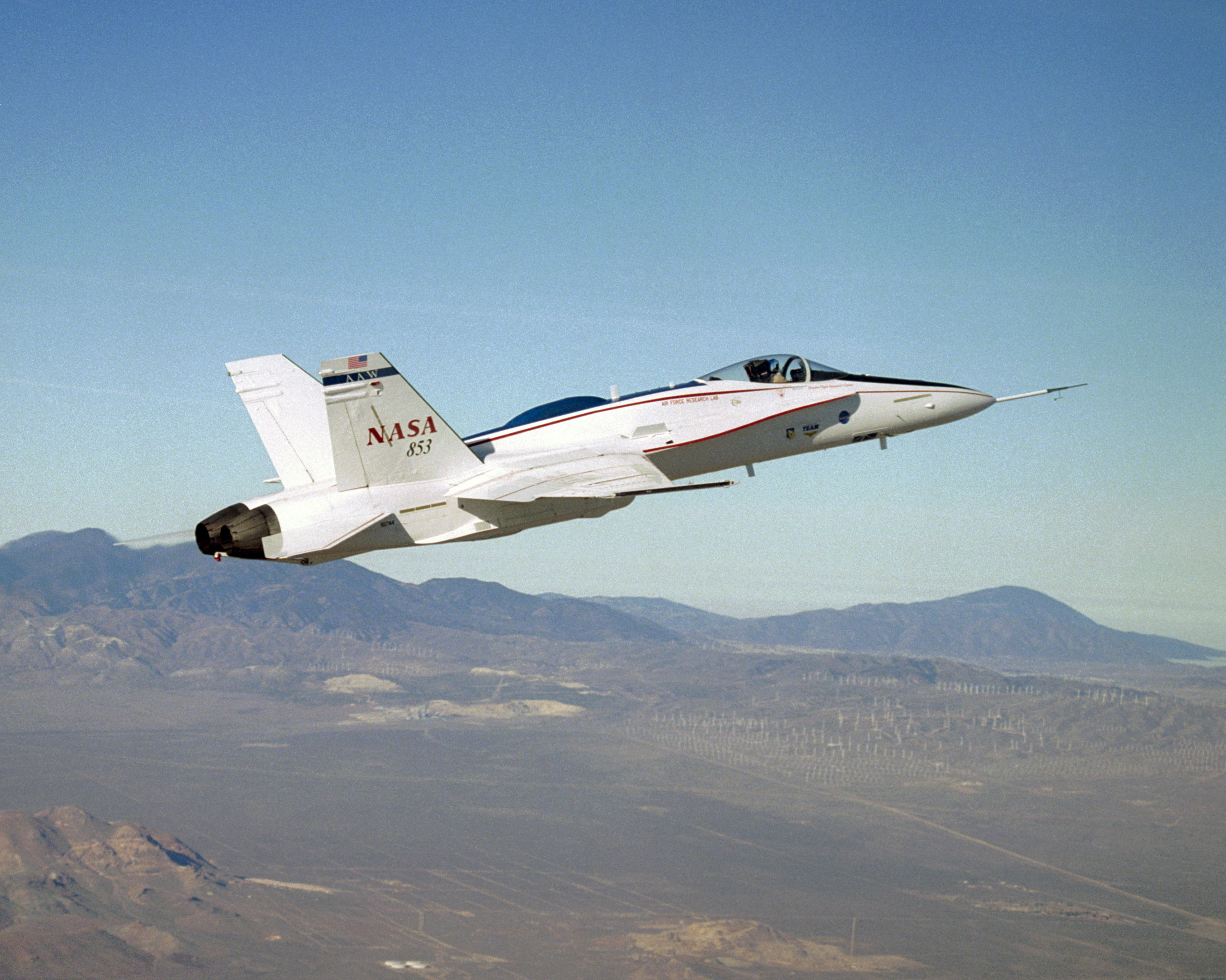 NASA's Active Aeroelastic Wing F/A-18 resumed flight tests in the second phase of the program at the Dryden Flight Research Center in early December 2004.